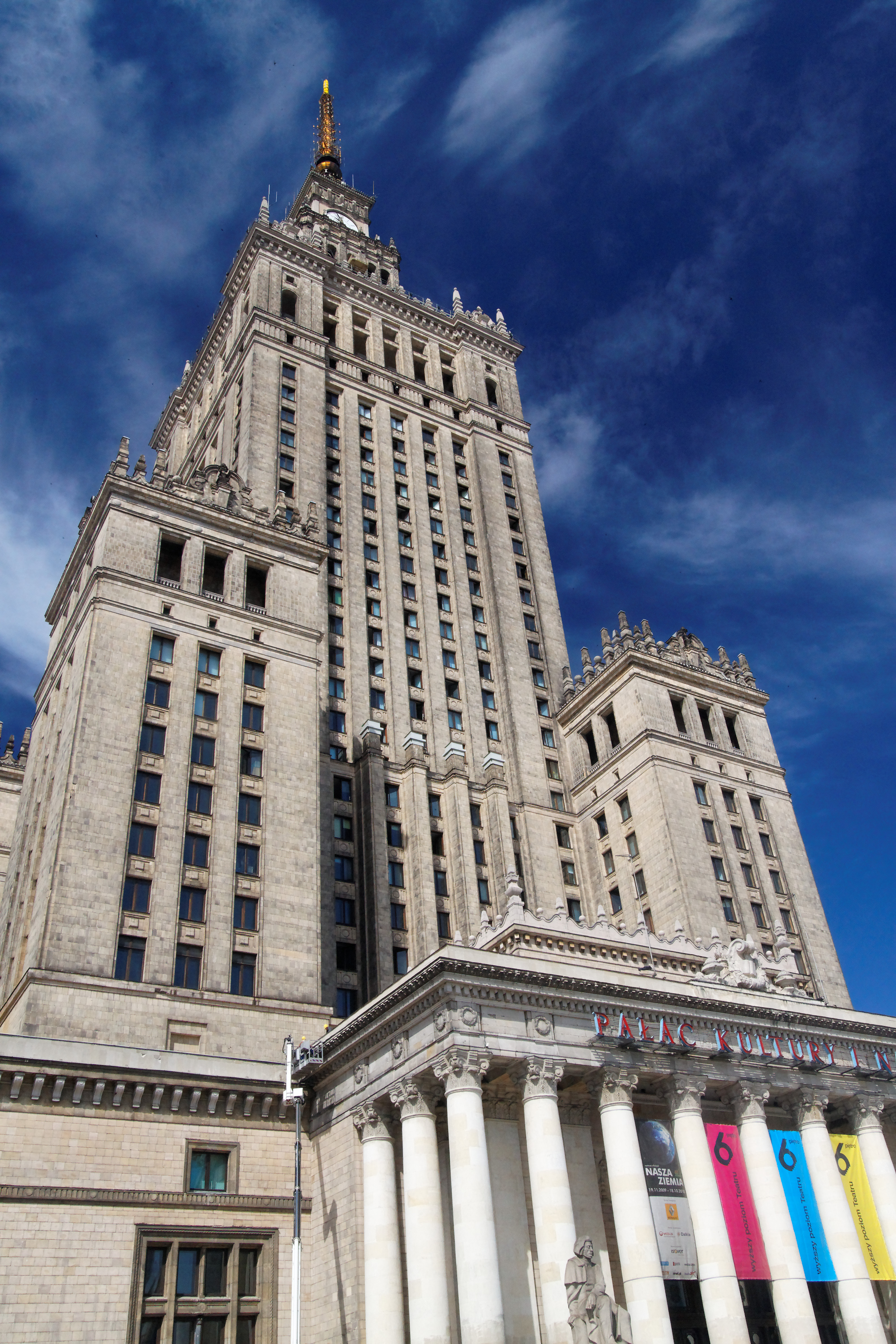 Palace of Culture and Science, Warsaw, Poland.